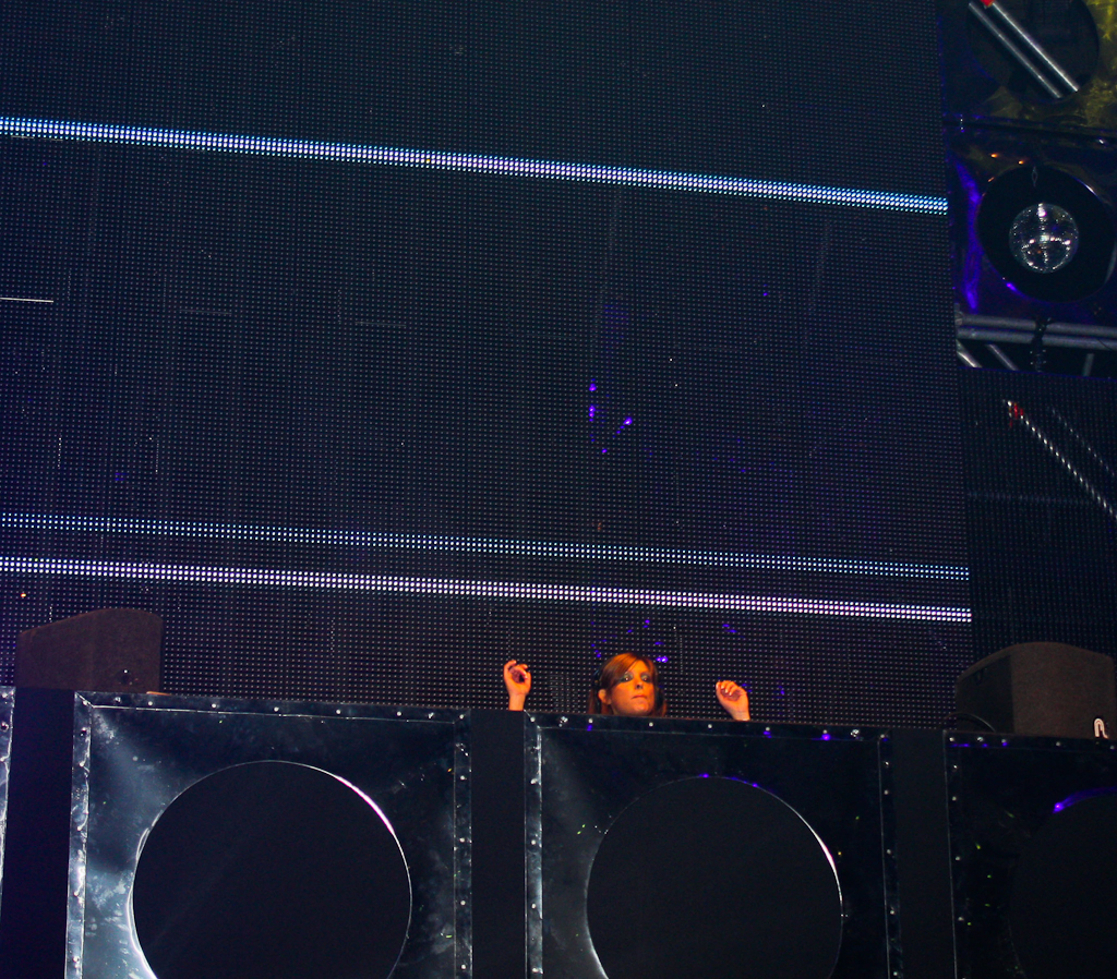 AniMe at the Masters of Hardcore area at Syndicate 2010.